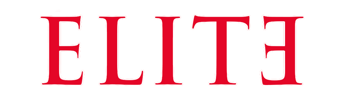 Simple red text reading 'elite' in all-caps, the last E flipped on the vertical